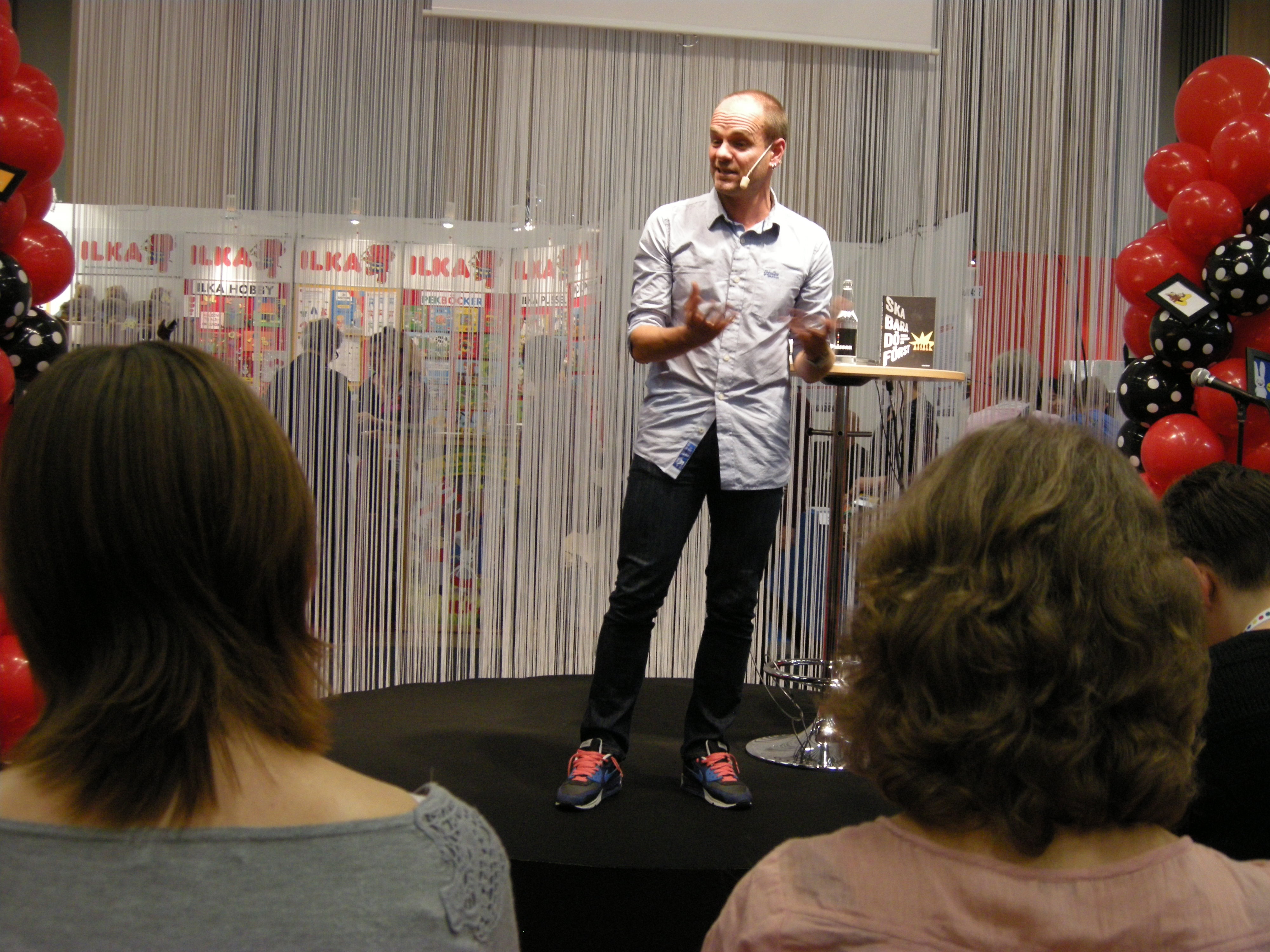 Norwegoan writer Harald Rosenløw Eeg at Göteborg Book Fair 2012